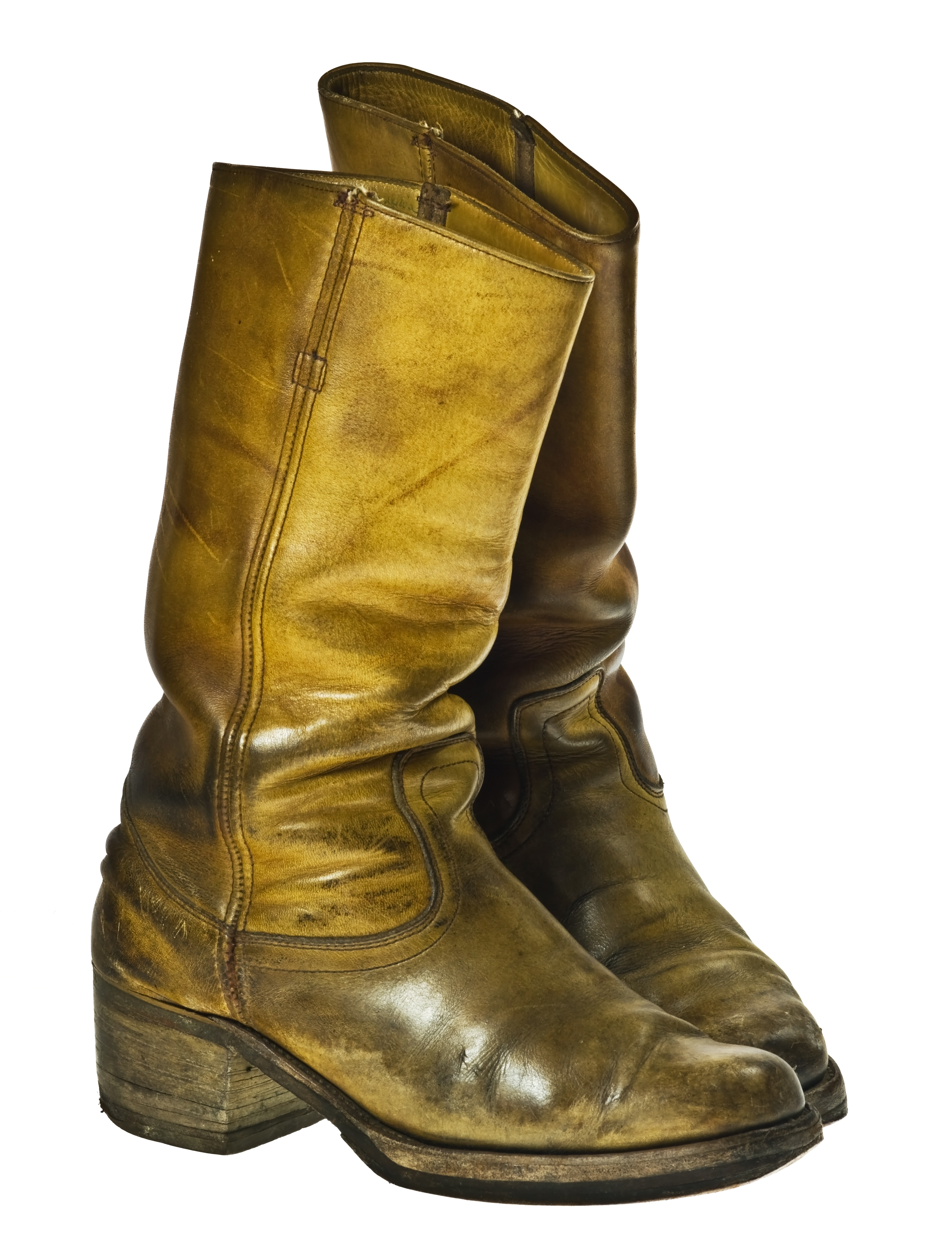 Cowboy style boots